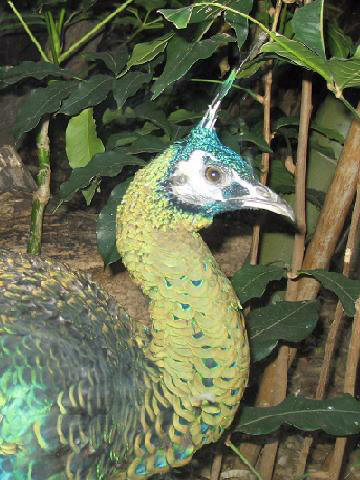 Green Peafowl, hybrid between P. m. imperator and P. m. spicifer.